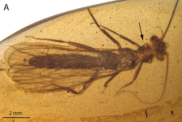 Largusoperla billwymani, holotype SMNS BU-229, photographs. (A) Dorsal view, arrow marks trapezoid pronotum.